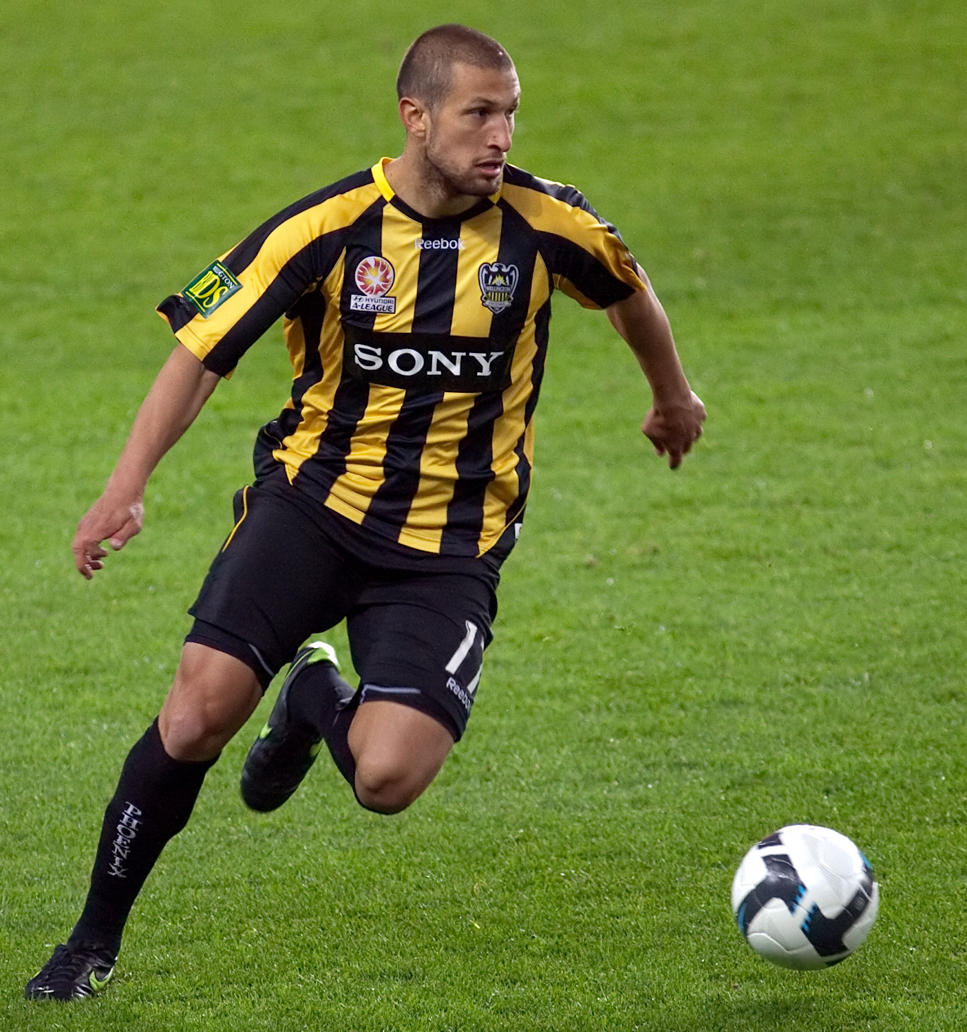 Vince Lia playing for the Wellington Phoenix against Sydney FC in the 2009-10 A-League.